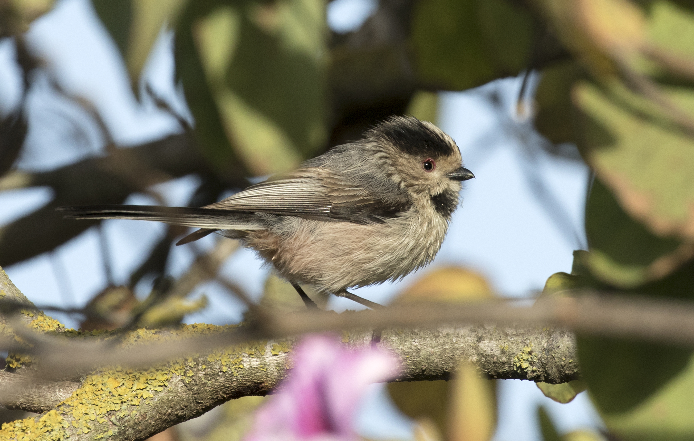 Long-tailed Tit (Aegithalos caudatus). Balcalı, Sarıçam - Adana, Turkey.